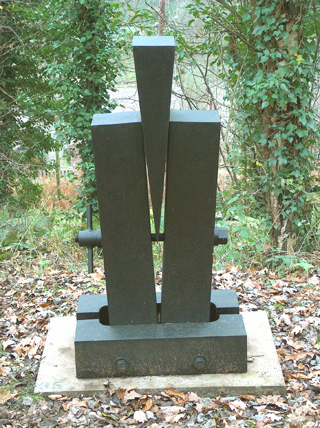 Steel, 3'11".